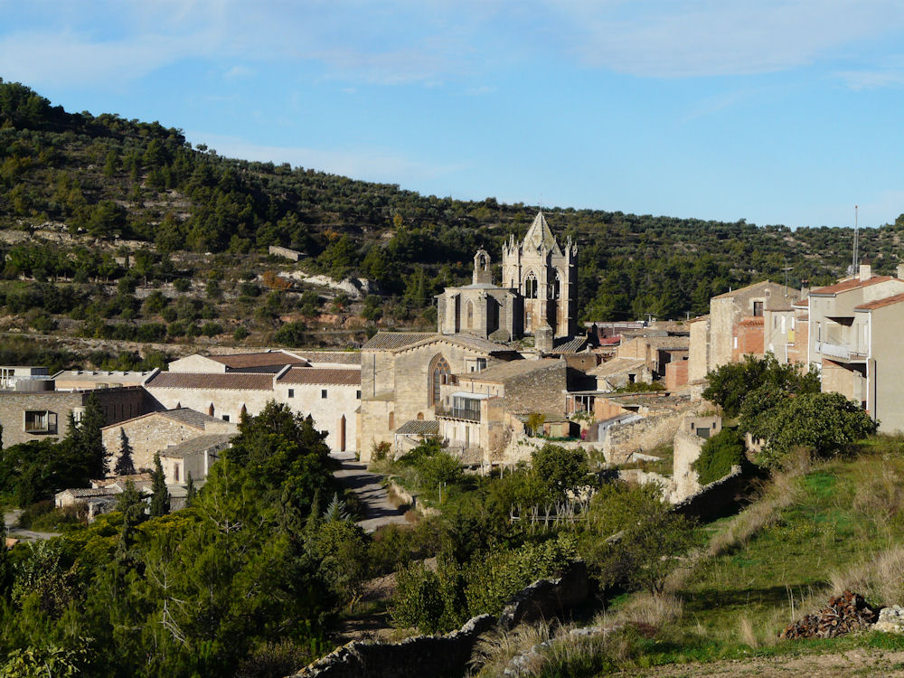 Royal Monastery of Santa Maria is a Cistercian monastery in the municipality of Vallbona de les Monges, Catalonia, Spain